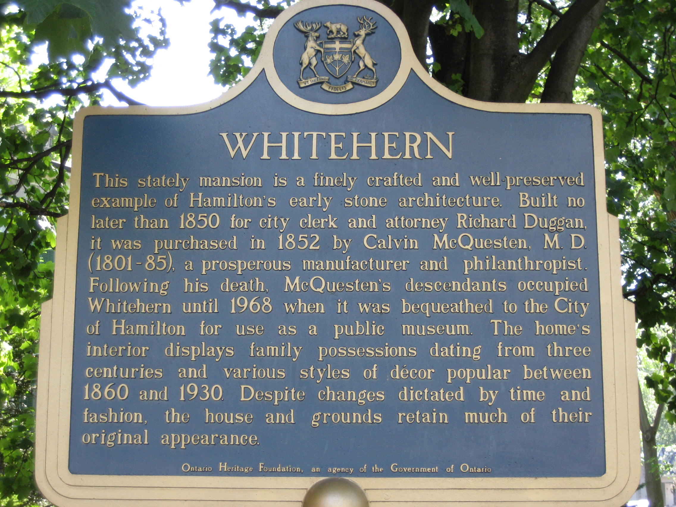 Whitehern Museum, MacNab Street North, downtown Hamilton, Ontario